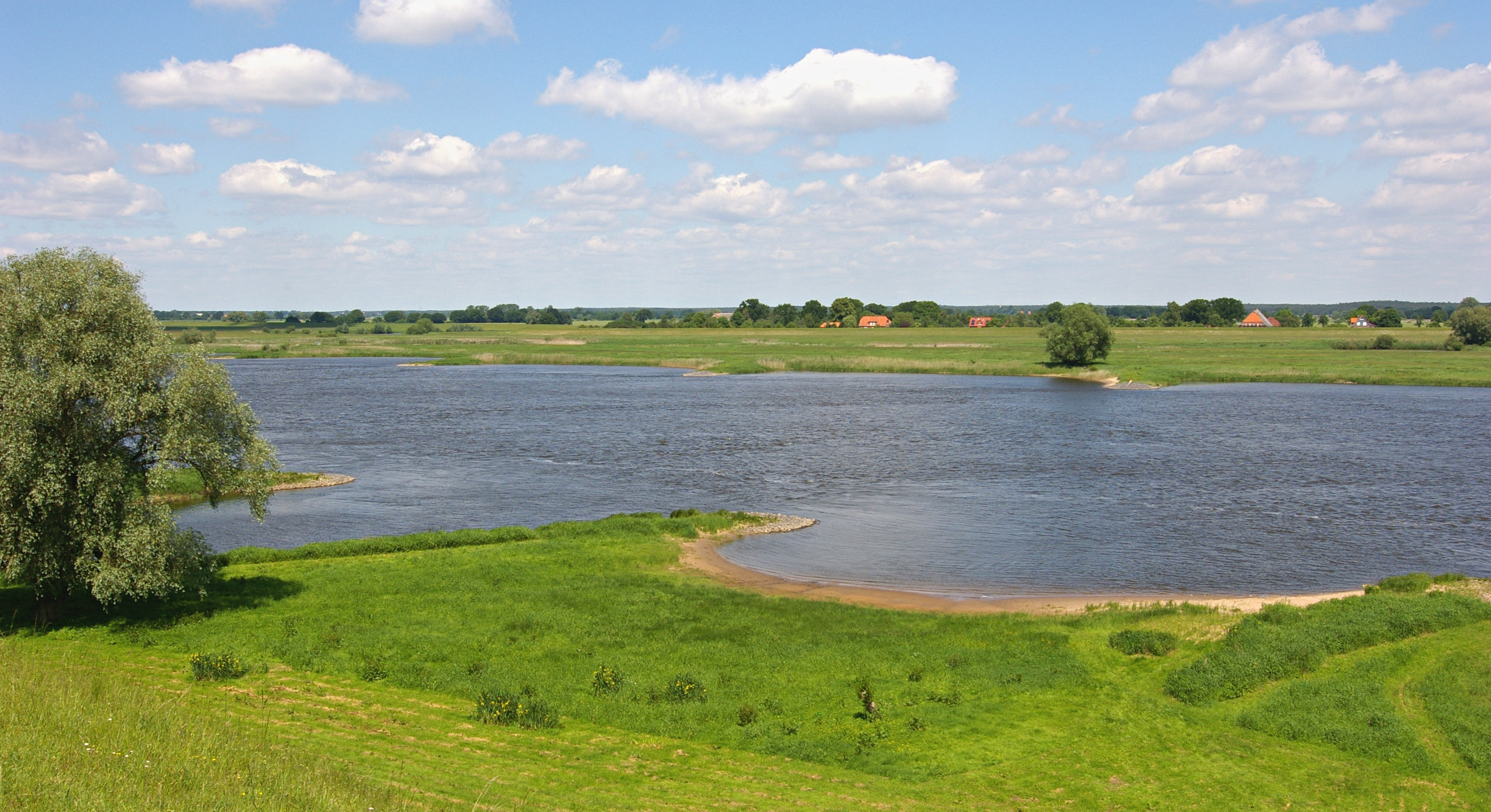 The Elbe river in northern Germany.